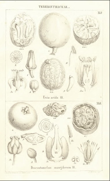 Botanical illustration from Carl Ludwig Blume. Museum botanicum Lugduno-Batavum, sive, Stirpium exoticarum novarum vel minus cognitarum ex vivis aut siccis brevis expositio et descriptio /auctore C. L. Blume. — Lugduni-Batavorum: E. J. Brill, 1849–1857